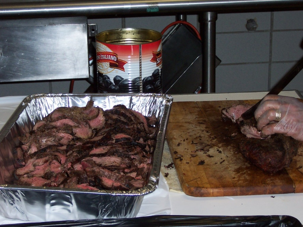 Slicing beef tenderloin to serve at a beefsteak banquet